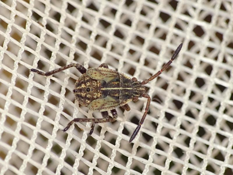 Stictopleurus abutilon, nymph. Location: The Netherlands - Grenspark de Zoom/Kalmthoutse heide - Groote Meer e.o.